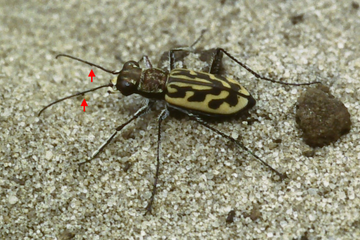 Lophyra sp. male (possibly fascicuicornis; see the structures on the fourth antennal segment; marked with arrows) St. Lucia Wetland Park (now iSamangaliso), Republic of South Africa